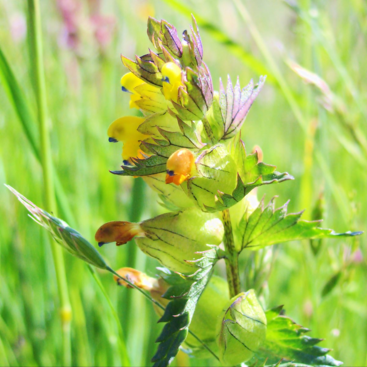 Name: Rhinanthus minor. Family: Orobanchaceae. Location. Nettersheim, Eifel, NRW, Germany